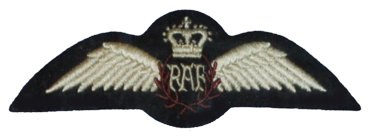 Photograph of RAF pilot's flying badge (wings). Queens's Crown.